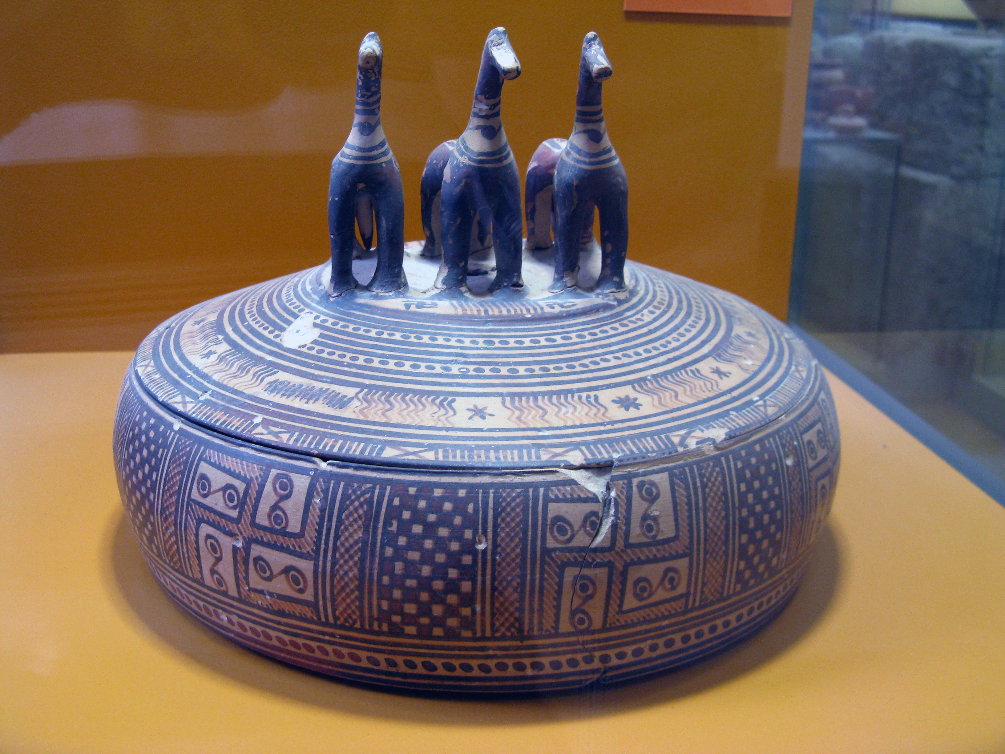 Late geometric pyxis and lid with three terracotta horses. The pyxide is a container for food offerings at a burial site. 725-700 BC.